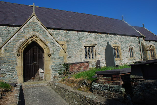 Eglwys S Edern Bodedern